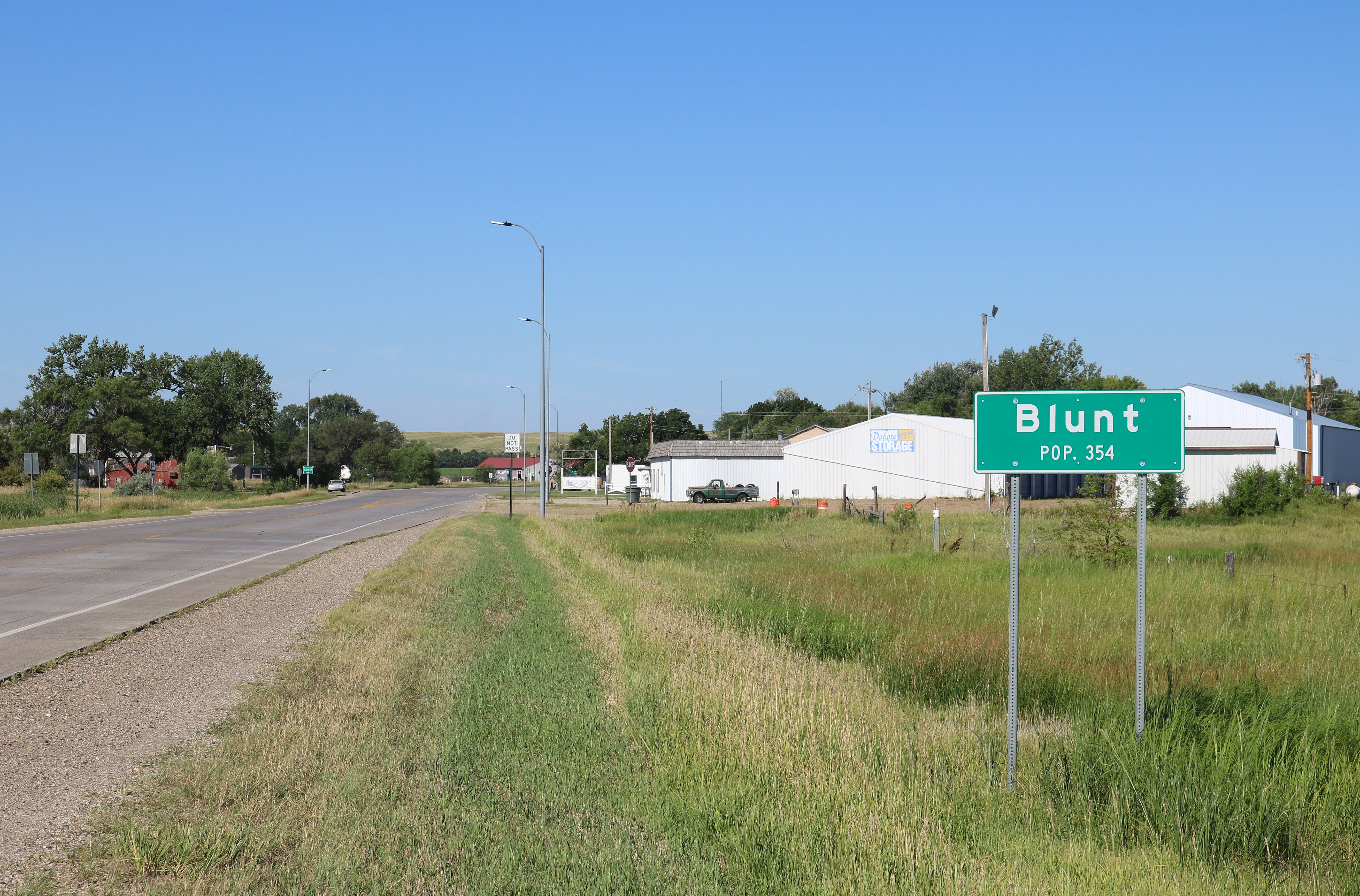 A view of Blunt, South Dakota from the northeast along U.S. Route 14.